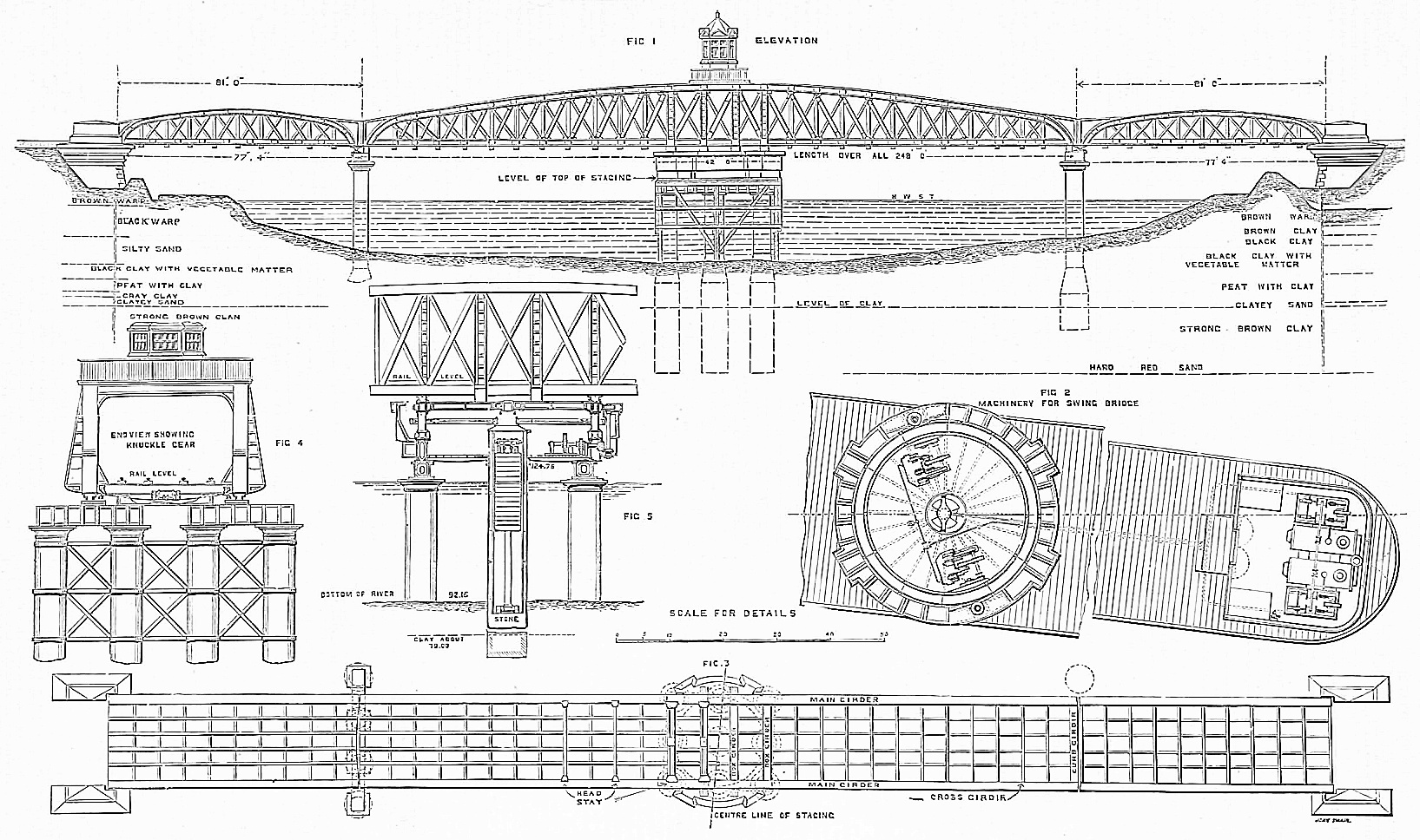 Diagrams of the Hull and Barnley railway swing bridge over the river Ouse, from an article on the same. Fig: 1 side elevation 2 top elevation / cross section of part of central pier 3 top elevation / cross section of swing span 4 transverse elevation along length of span 5 longitudinal cross section through centre of swing span showing hydraulic accumulator in center pier, and elements of rotating mechanism Built 1880s, dismantled 1970s, some abutments remain (as of 2010)